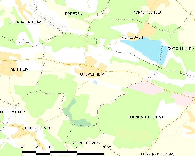 Map of French municipality